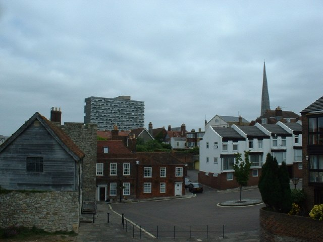 "Old" Southampton. The oldest part of Southampton although unfortunately a lot of it was bombed during WW2.